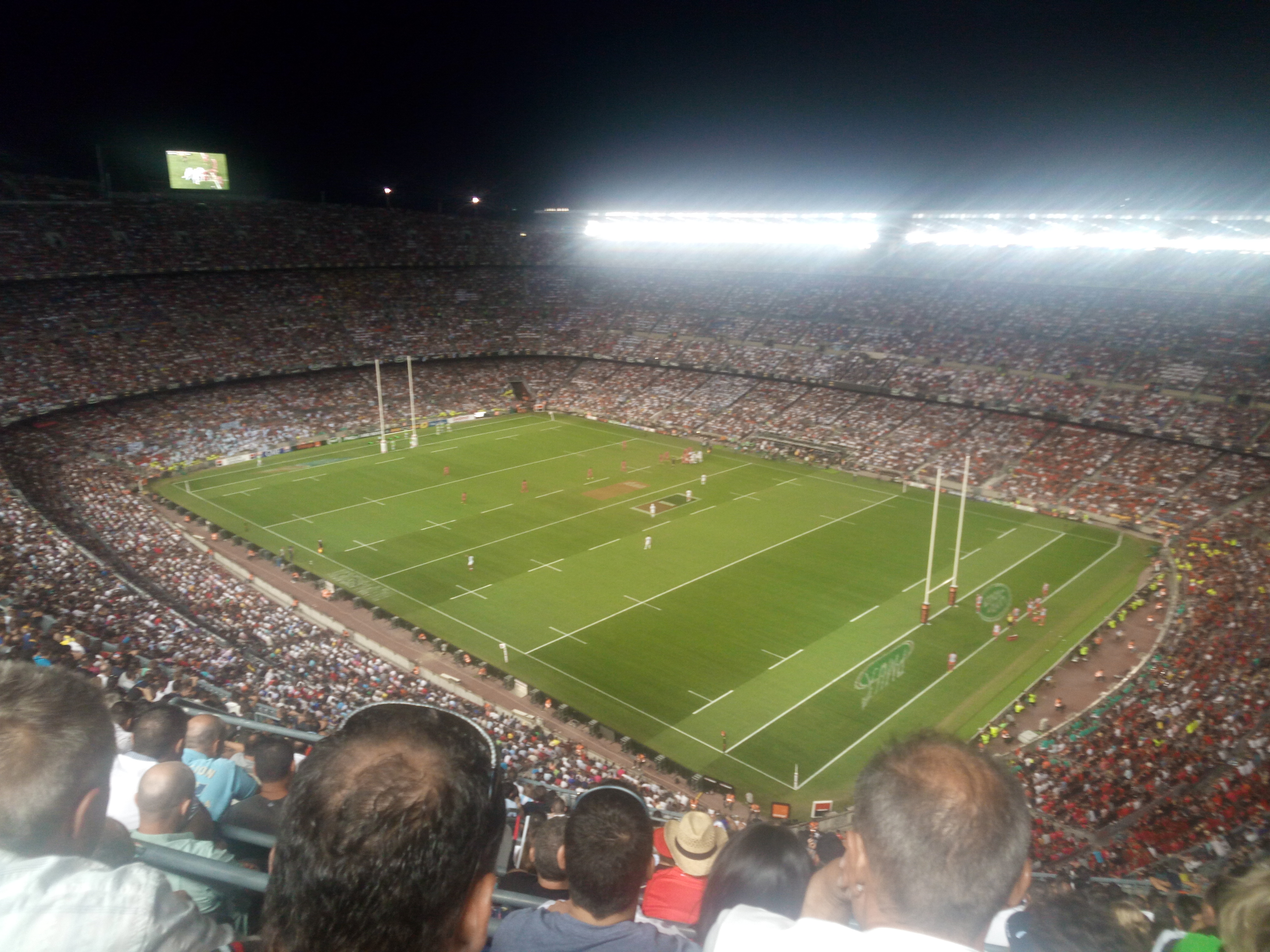 Top14 finale Barcelone Racing vs Toulon